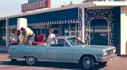 1964 Chevrolet El Camino